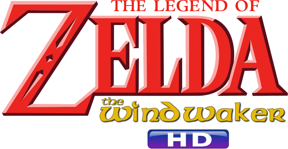 Logotype of The Legend of Zelda: The Wind Waker HD.